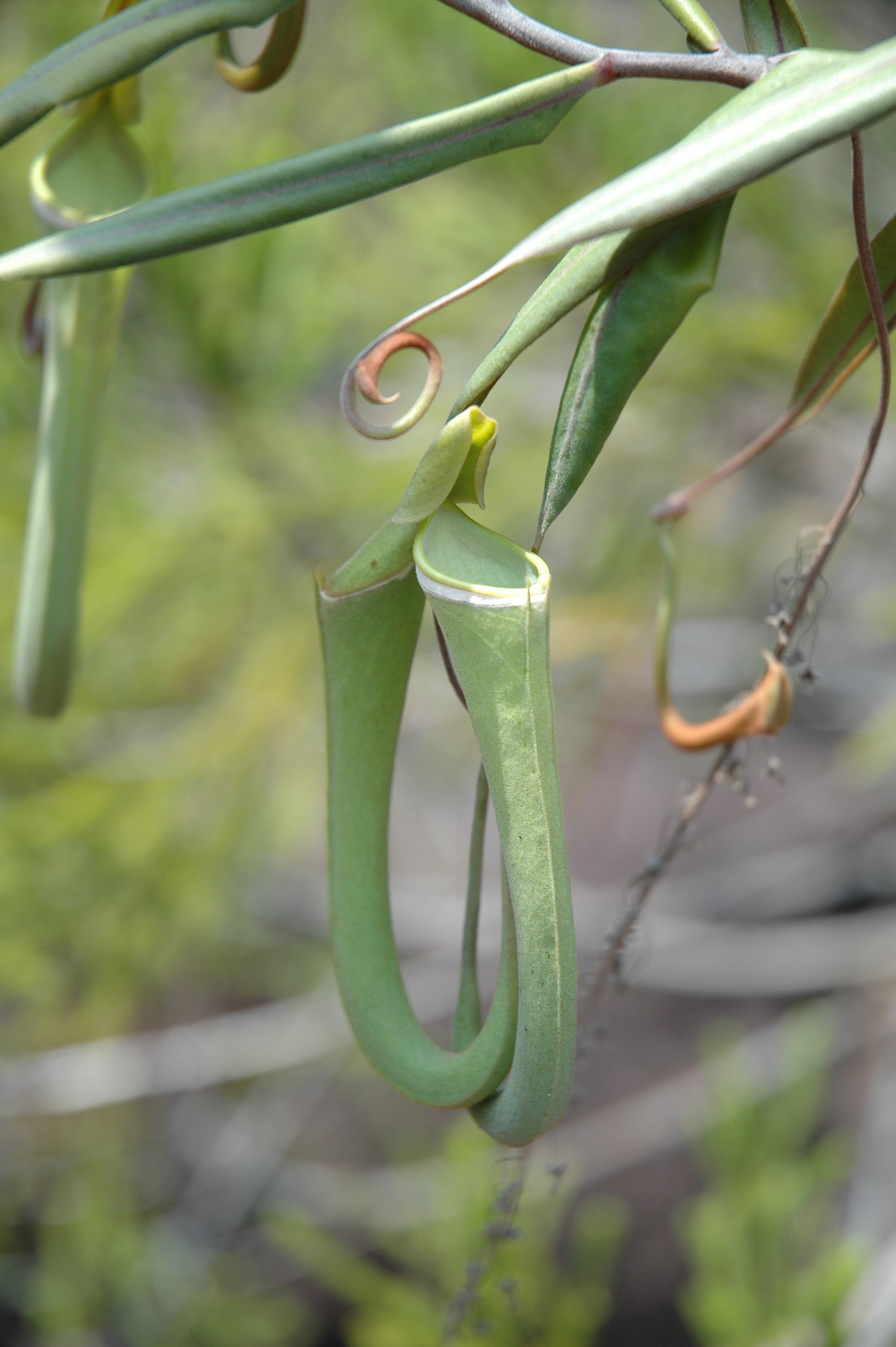 Bako NP Nepenthes albomarginata Photo by Jeremiah Harris